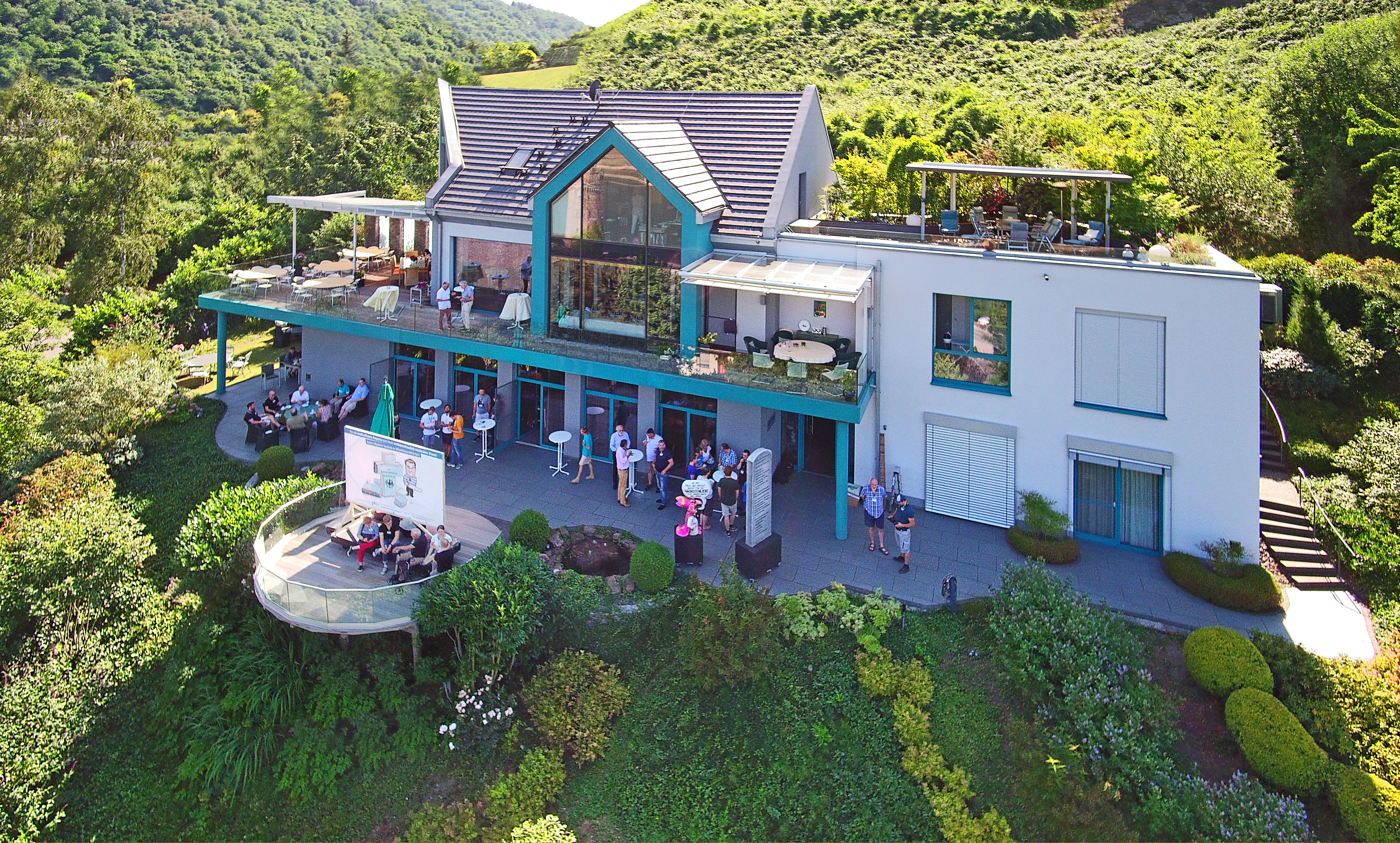 TIFF image description